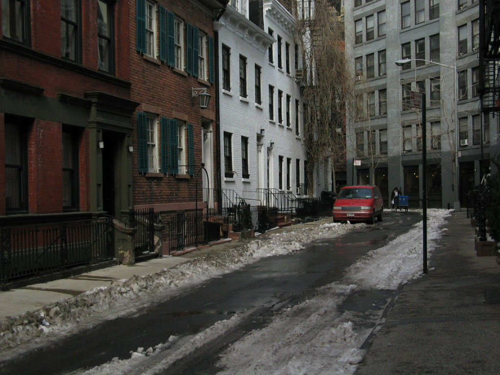 Gay street, is one of the sortest streets in New York City